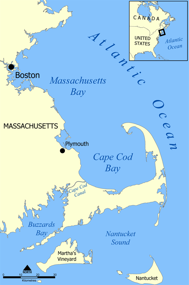 Map showing the location of Cape Cod Bay and Massachusetts Bay, off the west coast of Massachusetts, United States. Created by NormanEinstein, July 20, 2005.